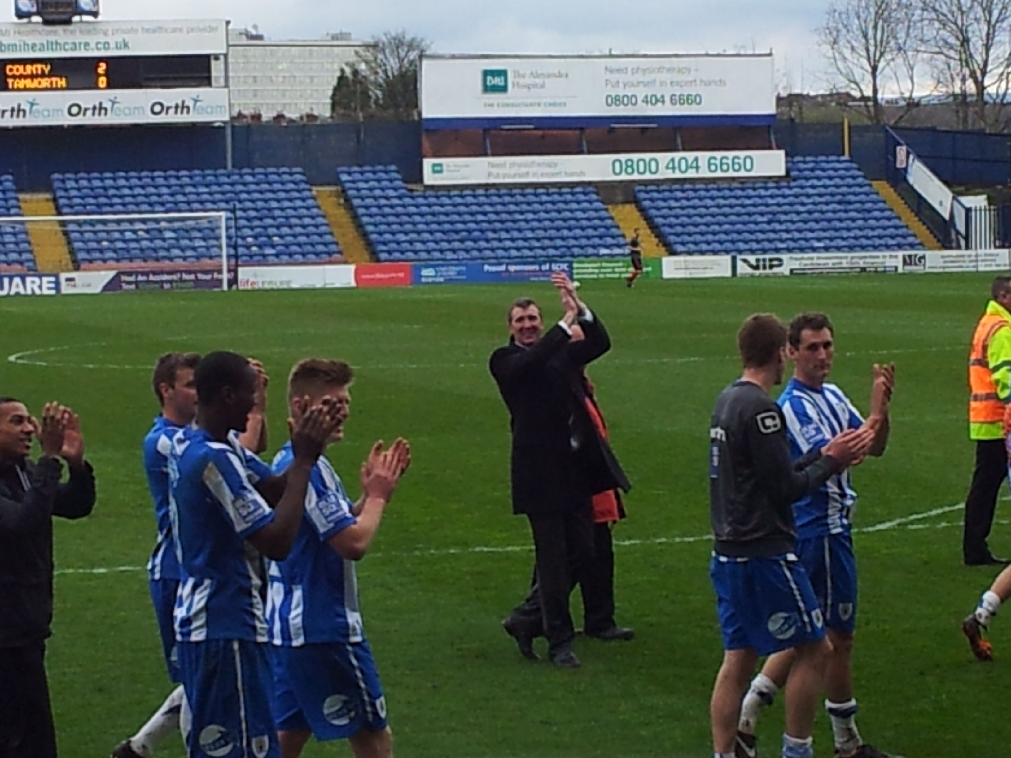 Jim Gannon, Stockport County Manager, applauds the fans after County's survival in the Blue Square Premier League, 2012.